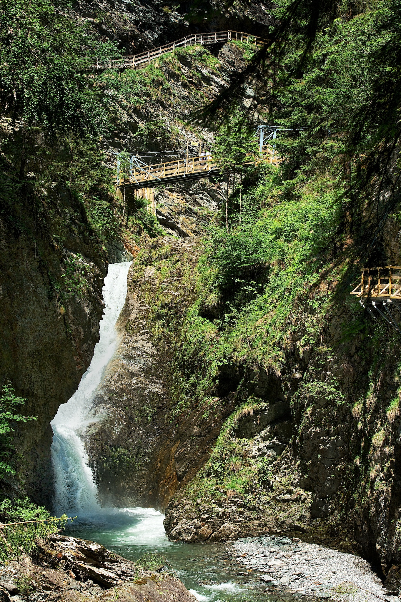 The river Diosaz in Haute-Savoie France.